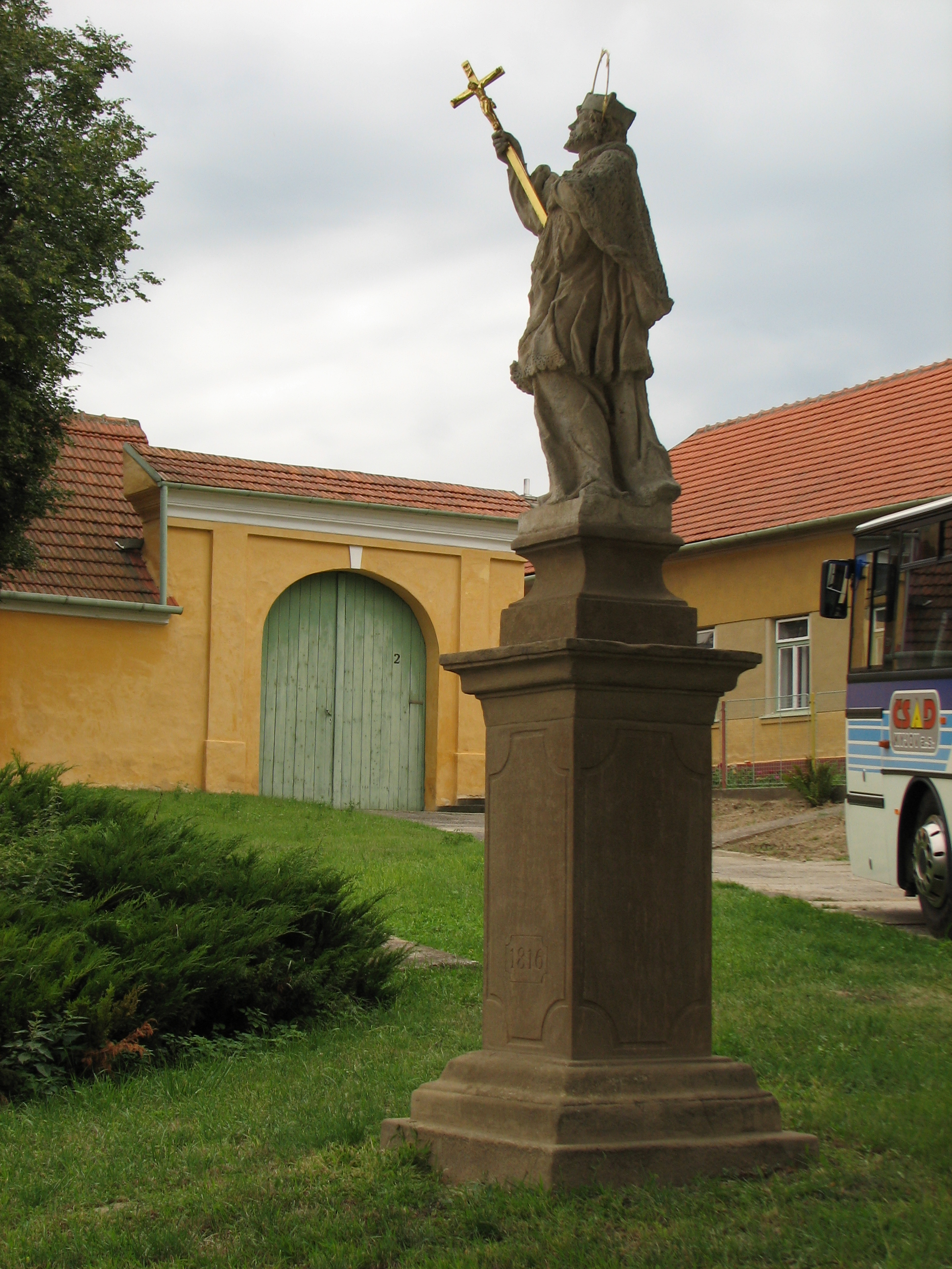 Dražůvky - statue of St. John Nepomuk; Hodonín District, Czech Republic